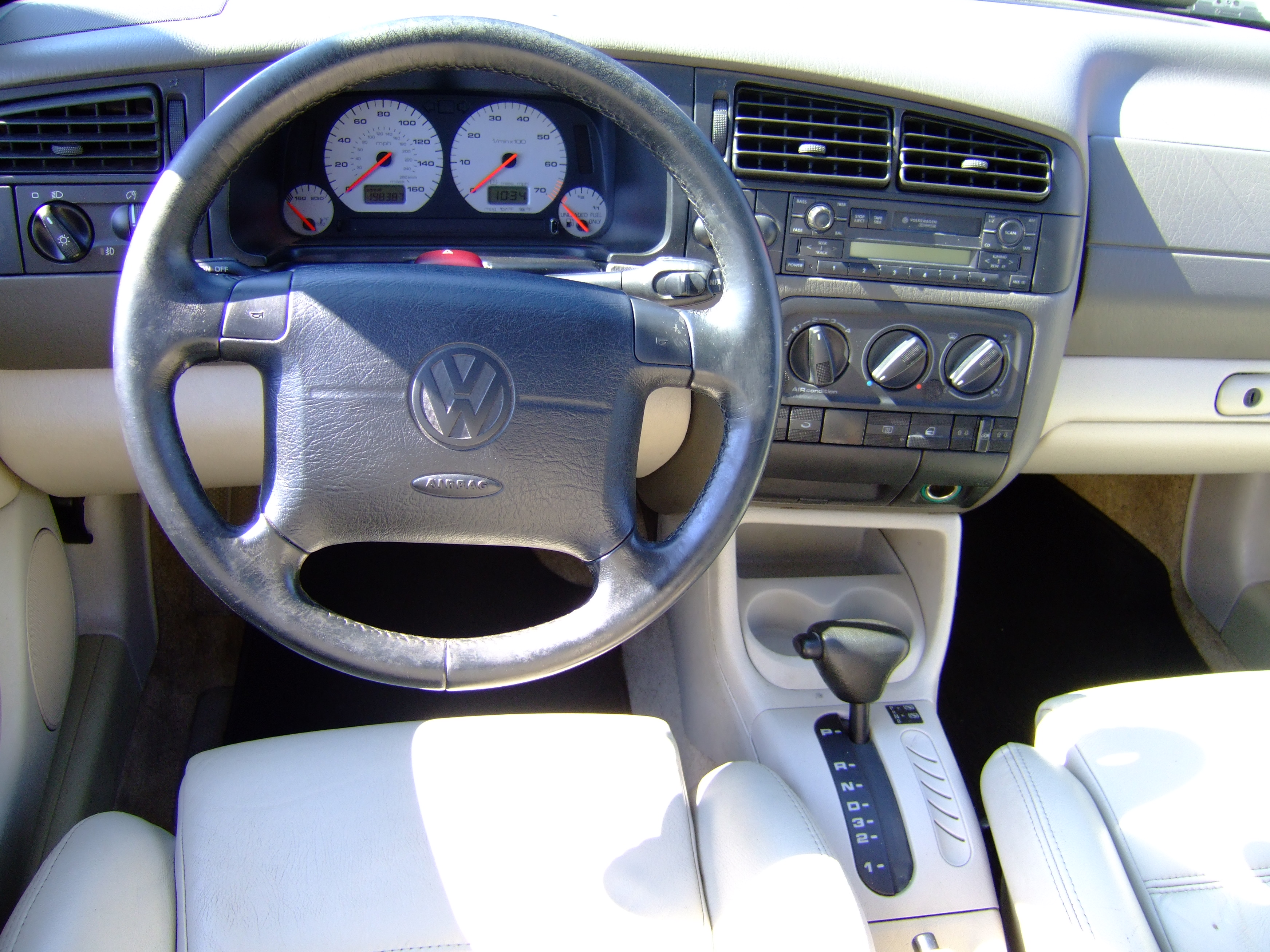 An interior picture of a Volkswagen Jetta (Vento) Mark 3. Self made photo.